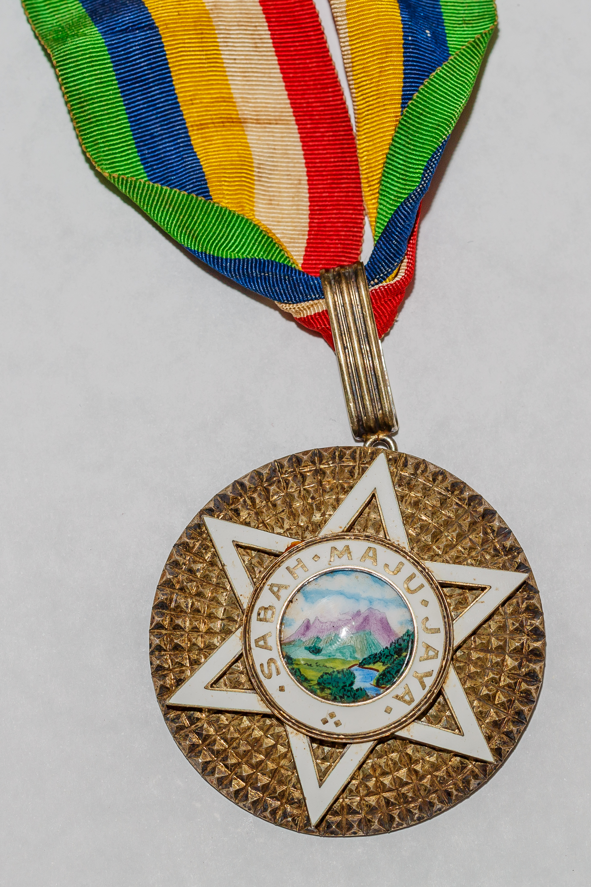 Kota Kinabalu, Sabah: The 4th class of the Order of Kinabalu (Malay: Ahli Darjah Kinabalu) (ADK). It is the lowest class of this order, also brings no title like the ASDK recipients. The position, service and influence of this award bearer is lower than the others but higher than the recipients of the Medal of State. The object is stored in the archive of Sabah Museum, Kota Kinabalu. Photo taken courtesy of the Sabah Museum.